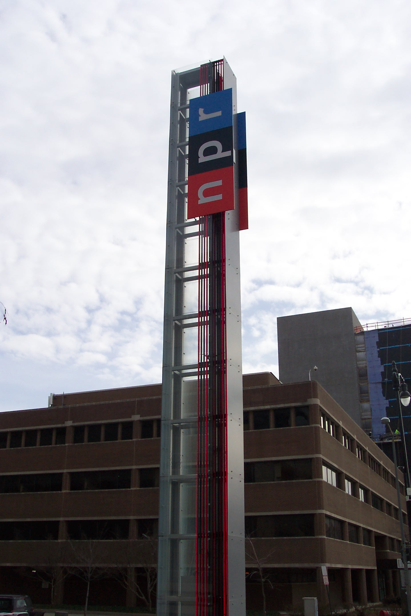 The new NPR sign at 1111 North Capital St, NE.